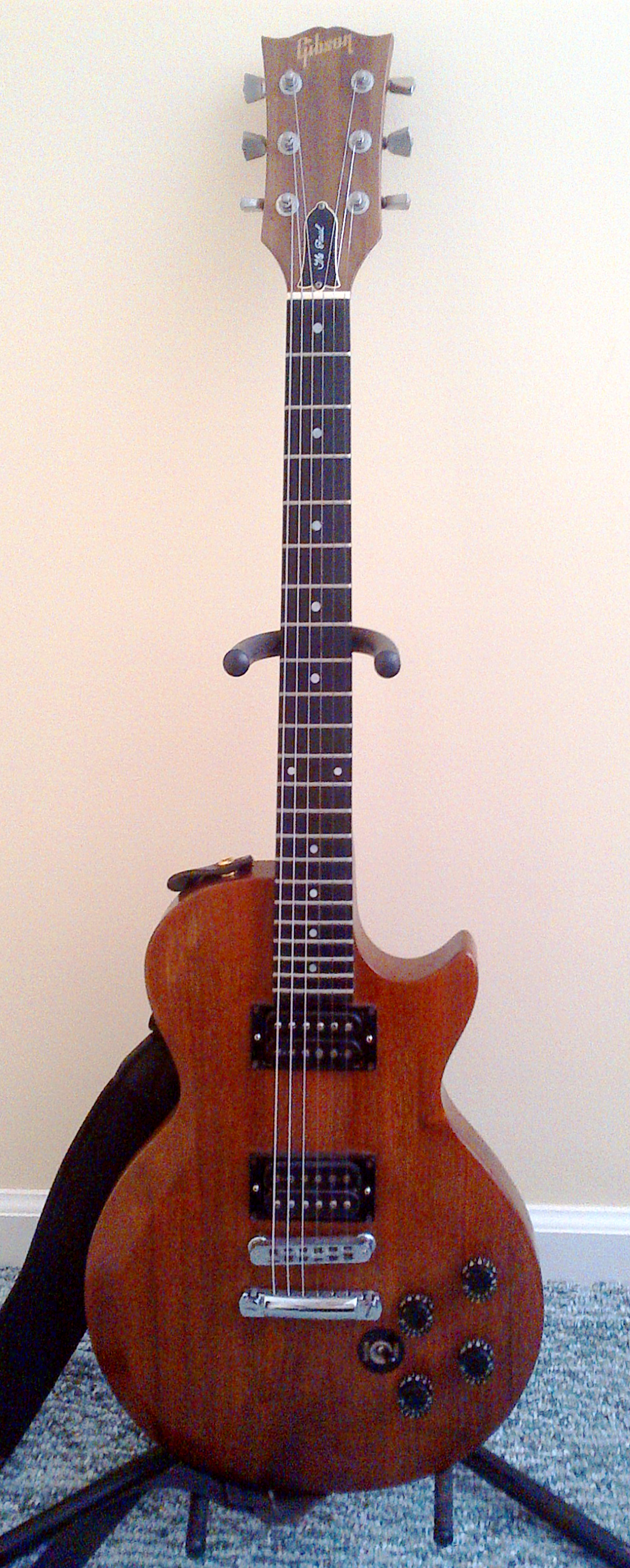 Color Picture of Gibson "The Paul" Electric Guitar